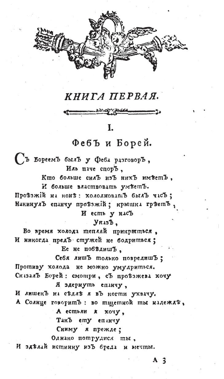 Sumarokov Complete VII 1781 p 05